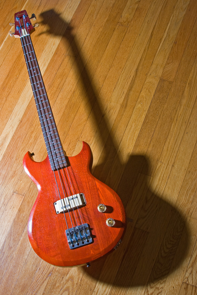 Aria Pro II Cardinal Series CSB-300 Bass Guitar